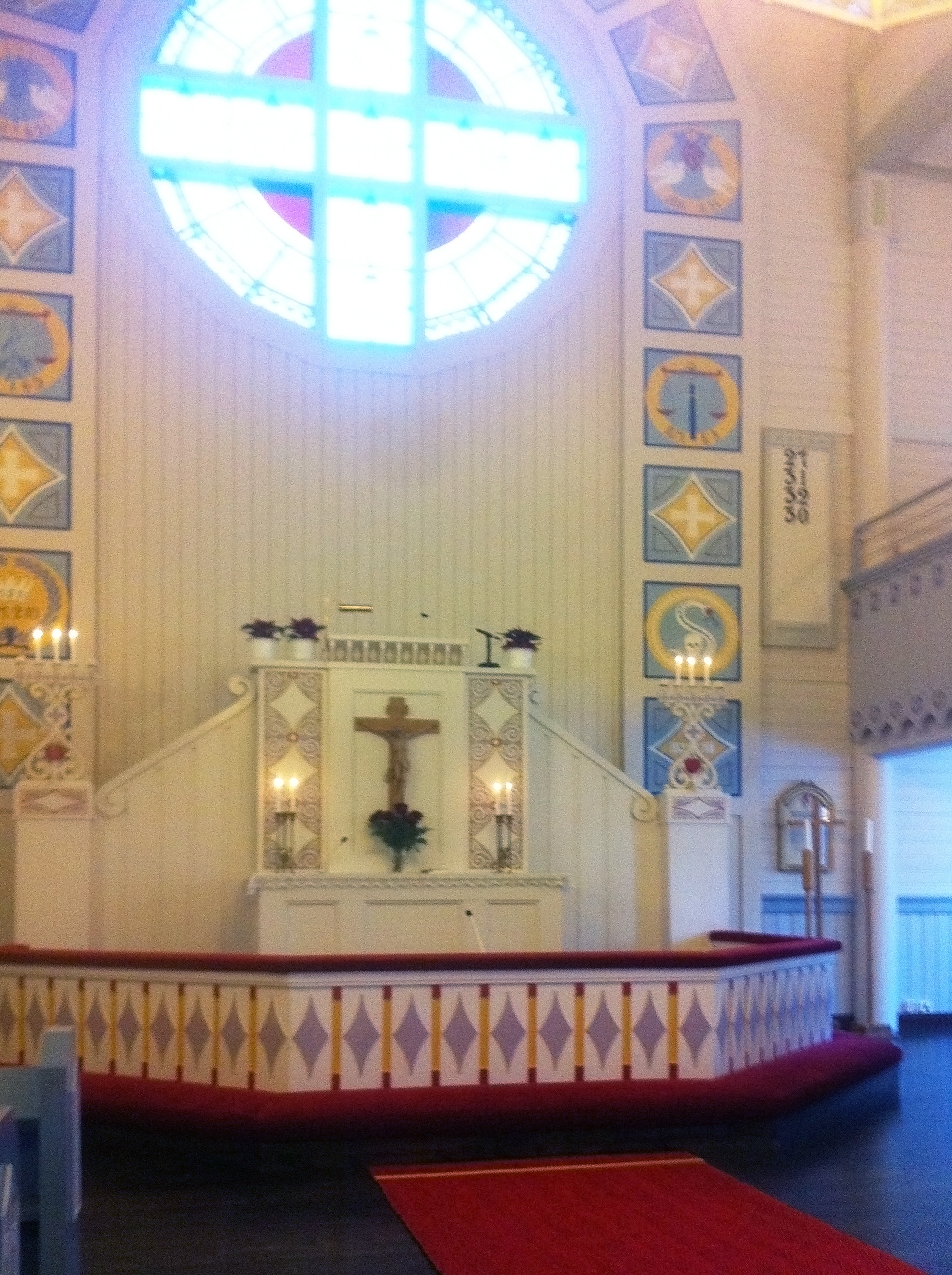 Vieremä Church interior, Finland